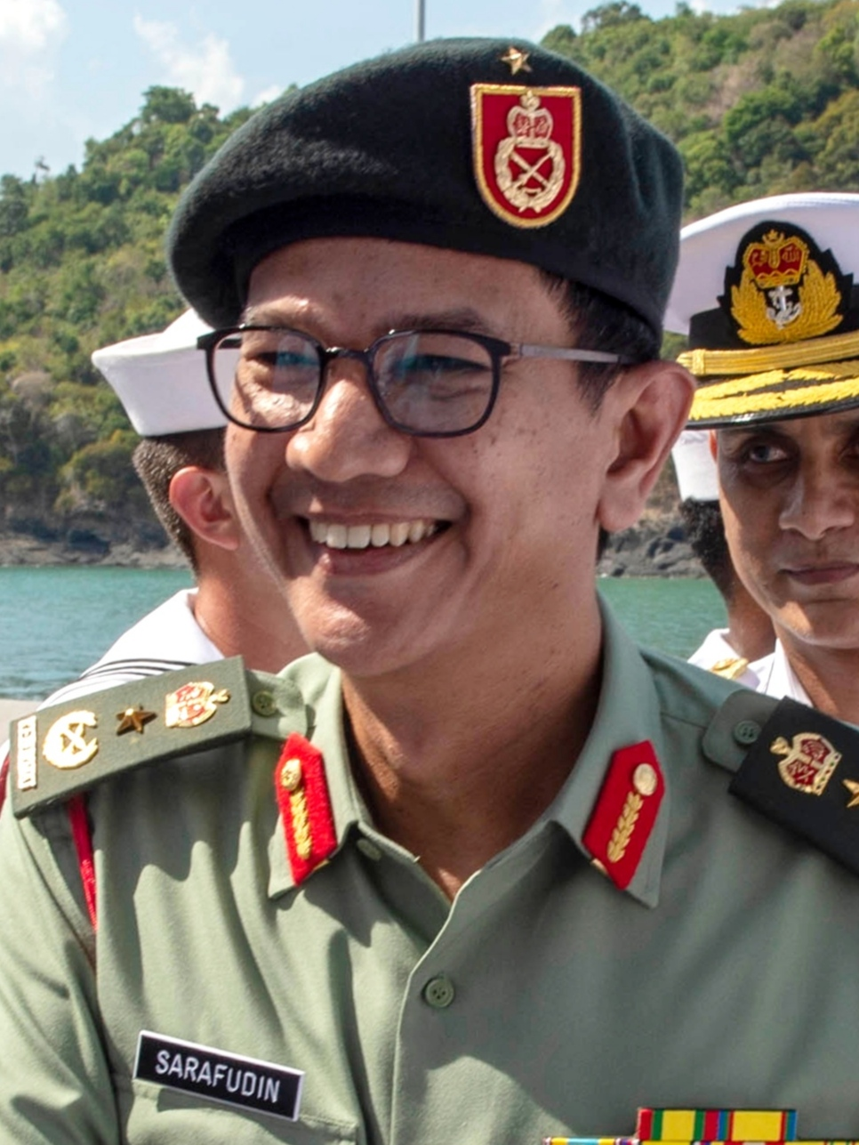 His Royal Highness Tengku Sarafudin Badlishah ibni Sultan Sallehuddin on 27 March 2019 during his visit to Langkawi International Maritime and Aerospace (LIMA) 2019